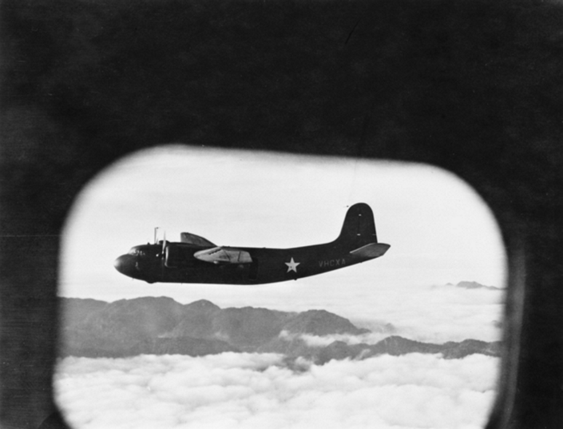 A United States Army Air Force C-110 (VH-CXA) transport aircraft used to carry supplies from Australia to New Guinea. Four DC-5s were purchased by the Netherlands and all four were used to evacuate civilians from Java to Australia in 1942. One was damaged at Kemajoran airport, Batavia, on 9 February 1942, and was captured by the Japanese and later test flown at Tachikawa air force base. The surviving three aircraft were operated by the Allied Directorate of Air Transport and were given the USAAF designation of C-110. Note: The DC-5 c/n 428 was delivered as PH-AXE to the Dutch KLM airline, then became PK-ADB with KNILM. It received the civil registry VH-CXA and was badly damaged at Parafield, South Australia, on 17 August 1942. Parts were used to rebuilt VH-CXC.[1].